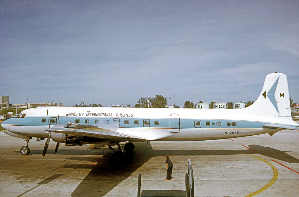 Douglas DC-6B N37573 of Mackey International Airlines at Miami Airport in 1975